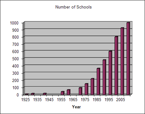 Update growth chart